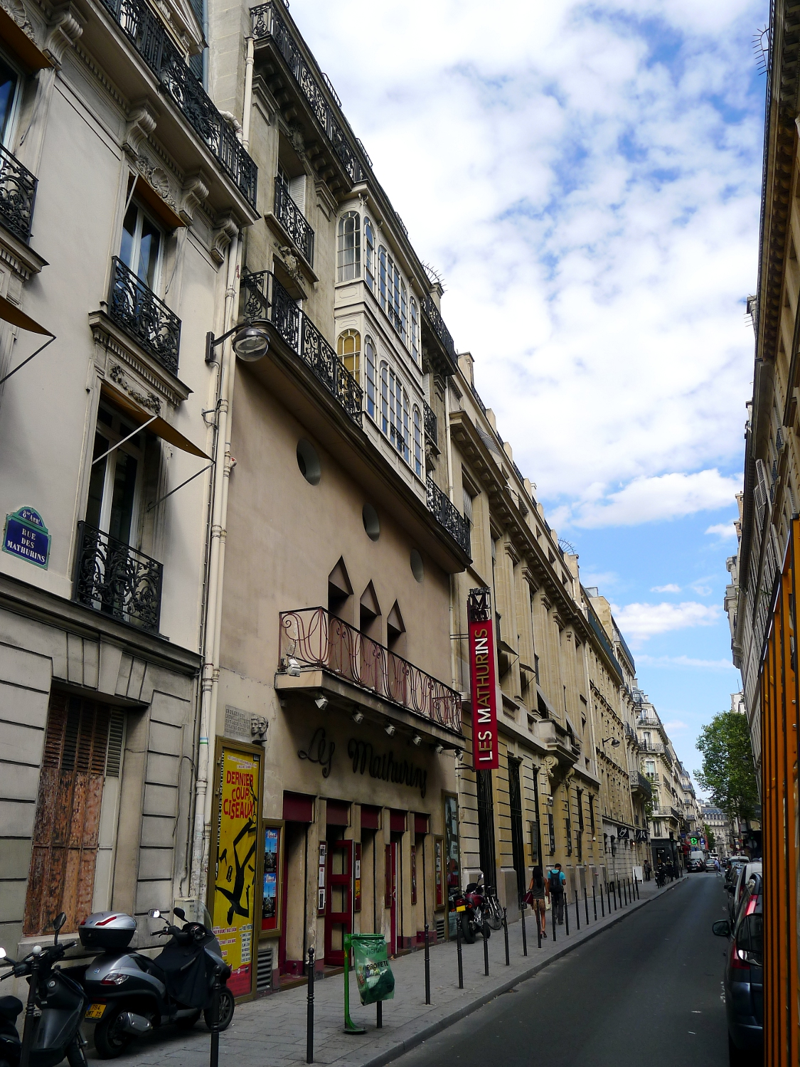 Mathurins street - Paris